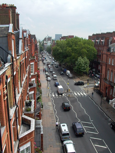 Pont Street, London SW1 Pont Street London SW1 looking east towards Sloane Street. The north side of Cadogan Square enters Pont Street at the pedestrian crossing to the right of mid frame.